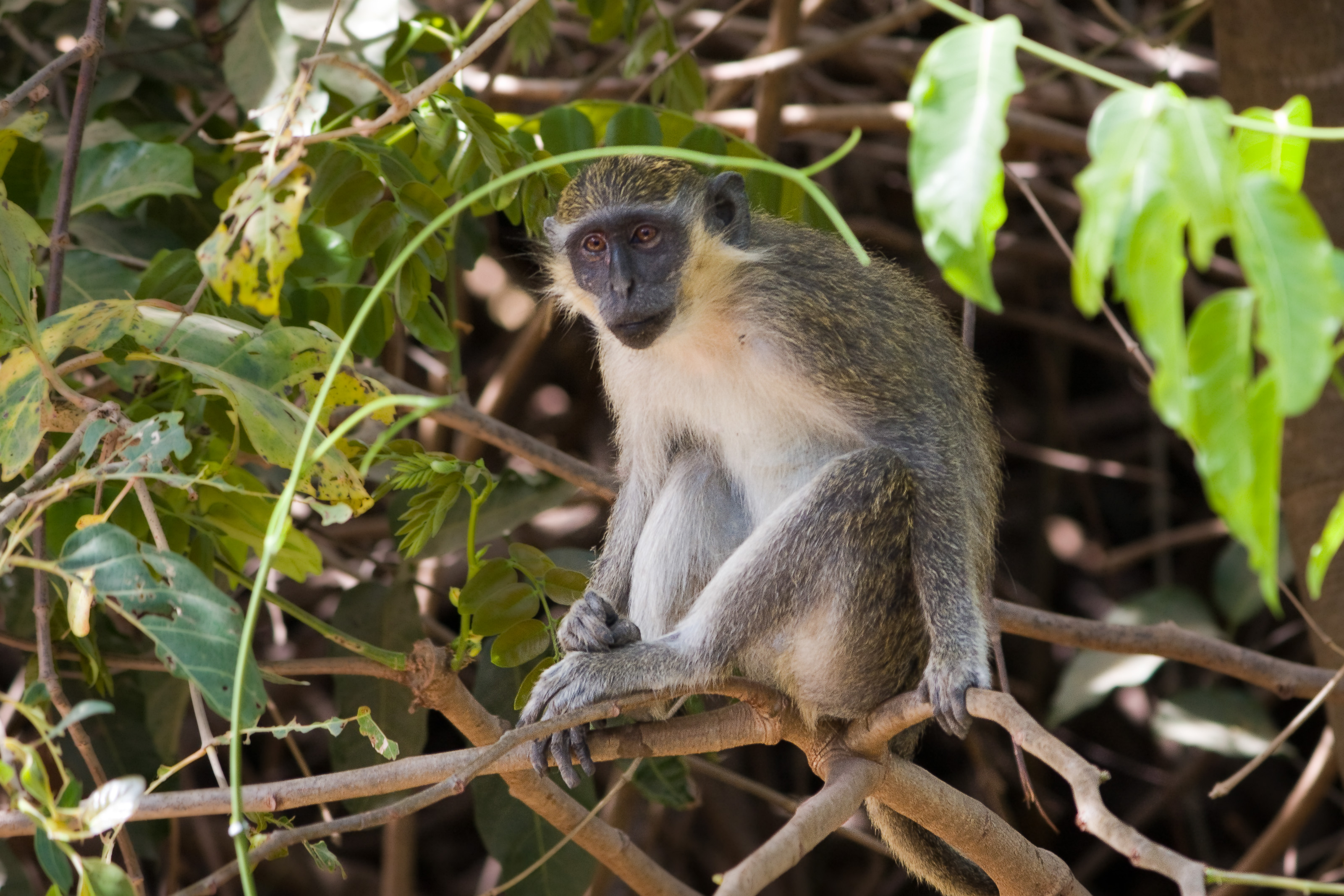 A Green Monkey (Clorocebus sabaeus) in Abuko Nature Reserve/The Gambia